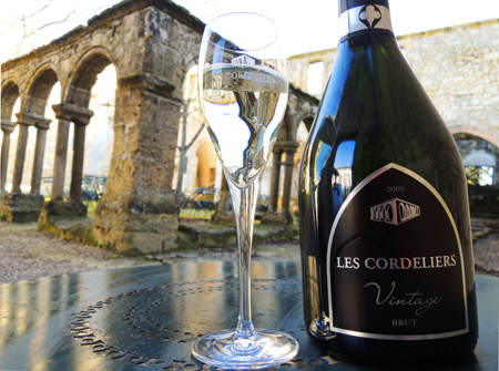 Cremant de Bordeaux Blanc Brut